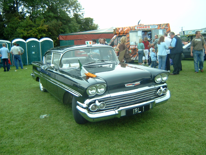 Former Irish government '58 Chevrolet Biscayne state car (rare right-hand drive model). Picture taken by myself (September 2005).